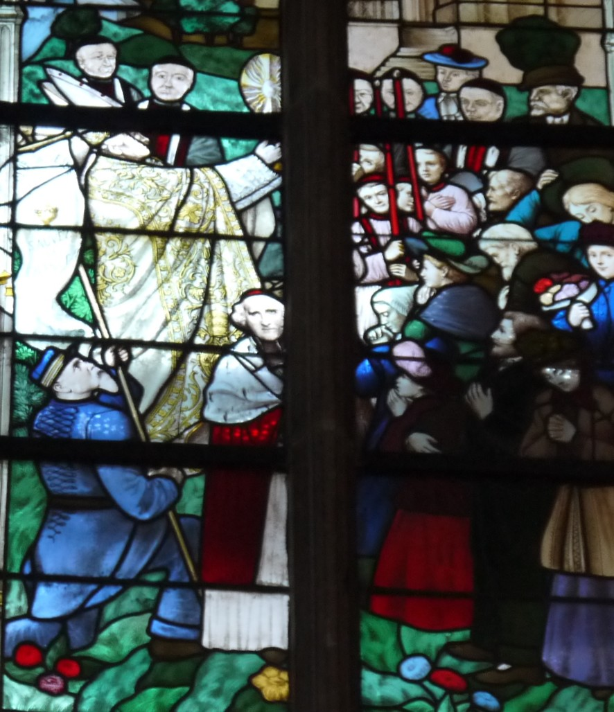 Detail from stained glass window in the Cathedral of Nantes, France, with popular crowd surrounding bishop Fournier.